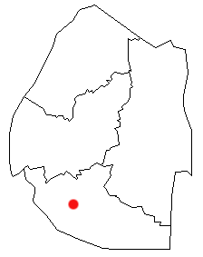 Hlatikulu, Eswatini Location Map; created with the GIMP. Made by User:Acntx